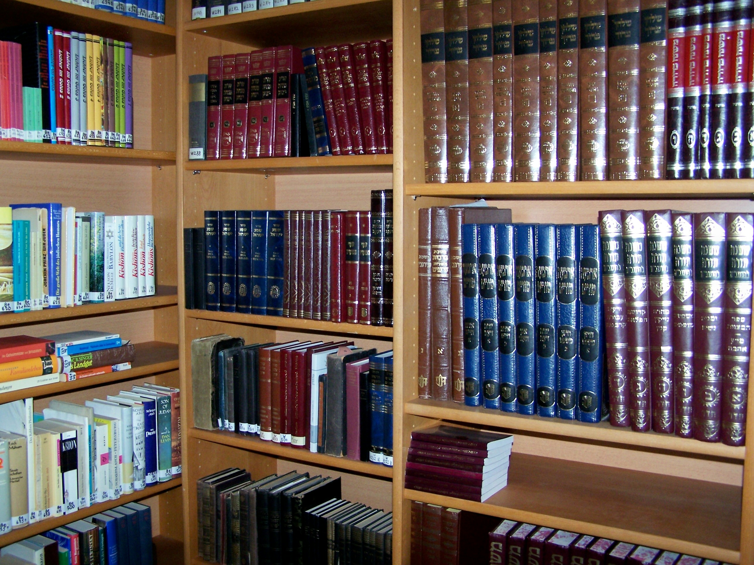 Dr.-Erich-Bloch-und-Lebenheim-Bibliothek (Judaica) in Konstanz, Germany